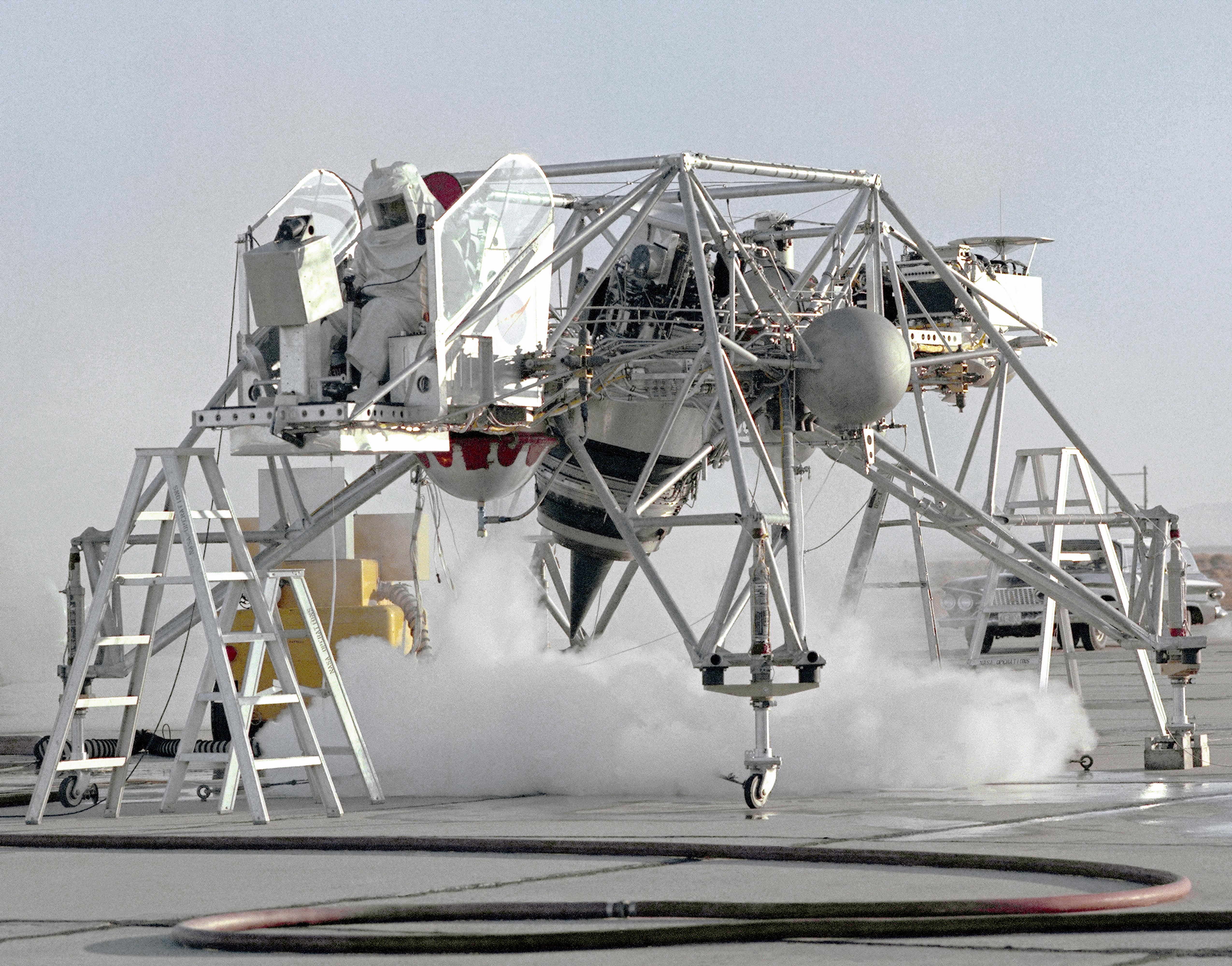 This 1964 NASA Flight Reserch Center photograph shows a ground engine test underway on the Lunar Landing Research Vehicle (LLRV) number 1.